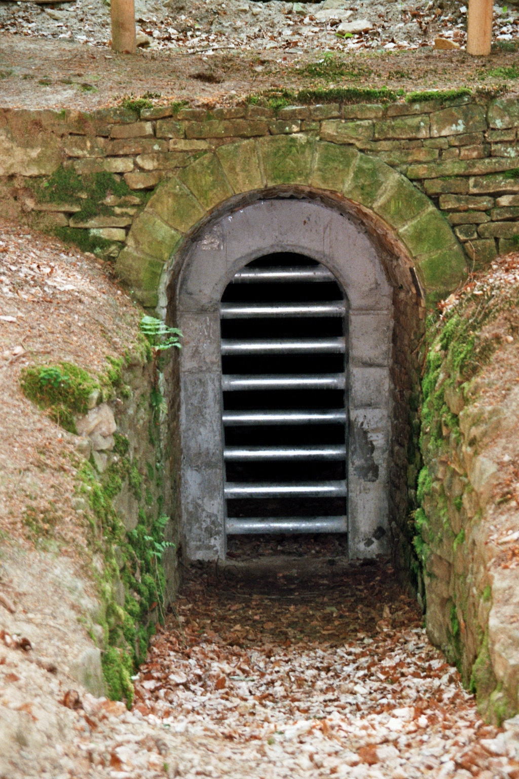 Steinbeck Adit (Steinbecker Stollen) in the Buchholz Forest (Buchholzer Forst) near Recke-Steinbeck, Kreis Steinfurt, North Rhine-Westphalia, Germany. The adit mouth is protected by a bat-friendly gate.